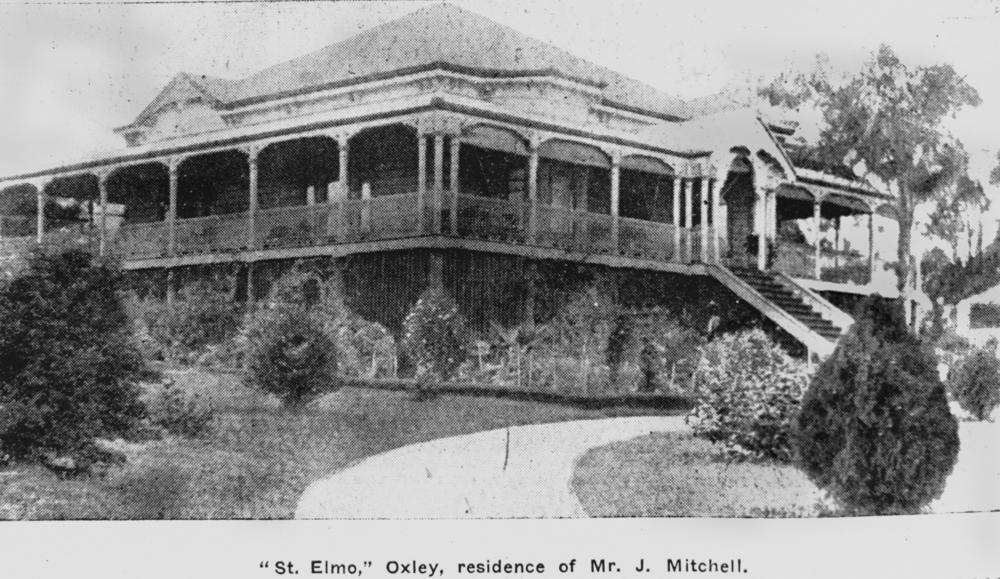 James Mitchell's residence in Oxley, Brisbane, 1906. St.Elmo, the residence of James Mitchell, pictured in manicured gardens with flower beds growing near the front entrance steps.